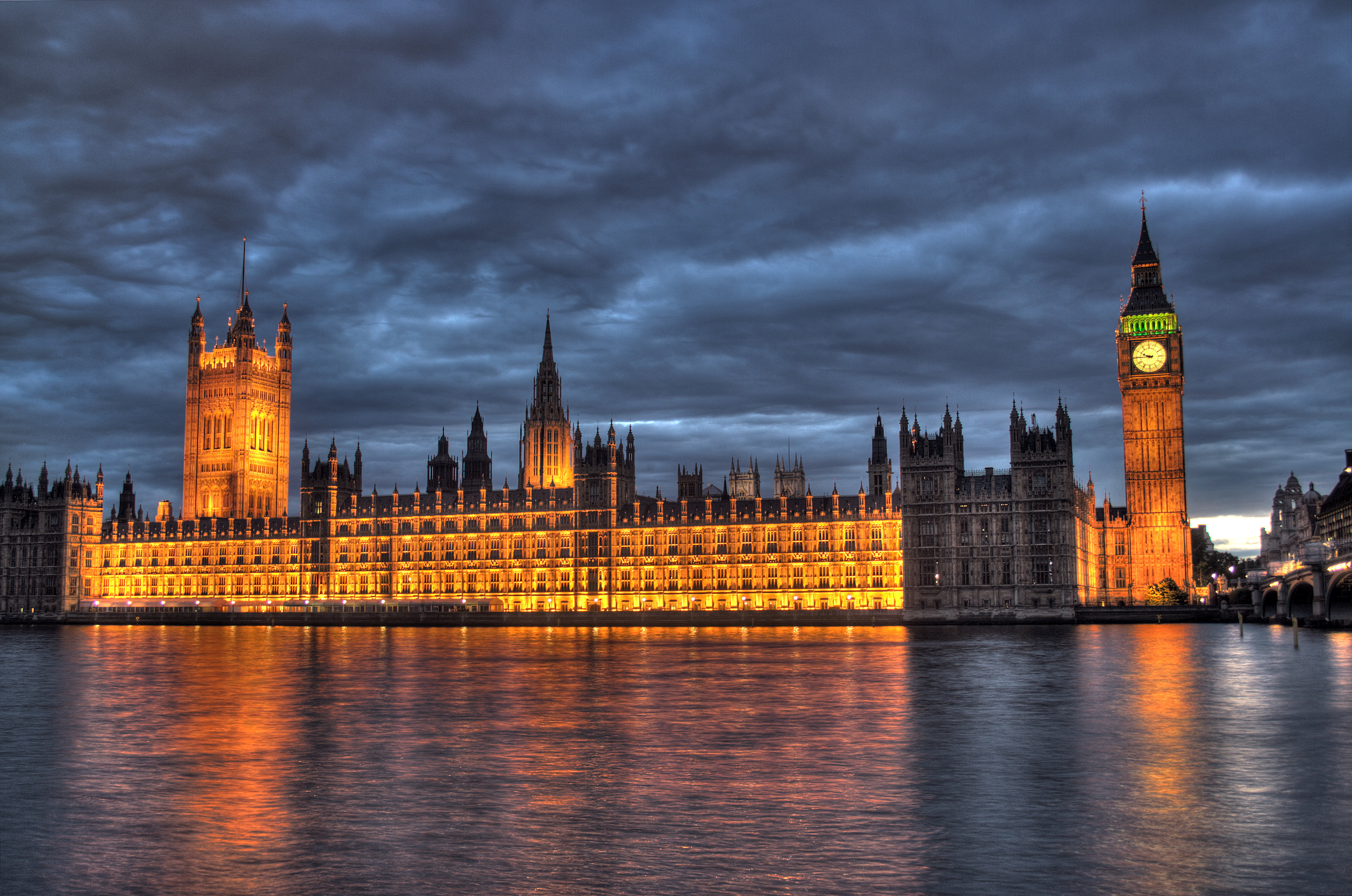 The Parliament of the United Kingdom